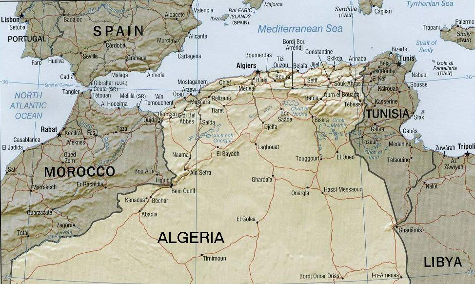 Rendered map of former Barbary States (coastal region)